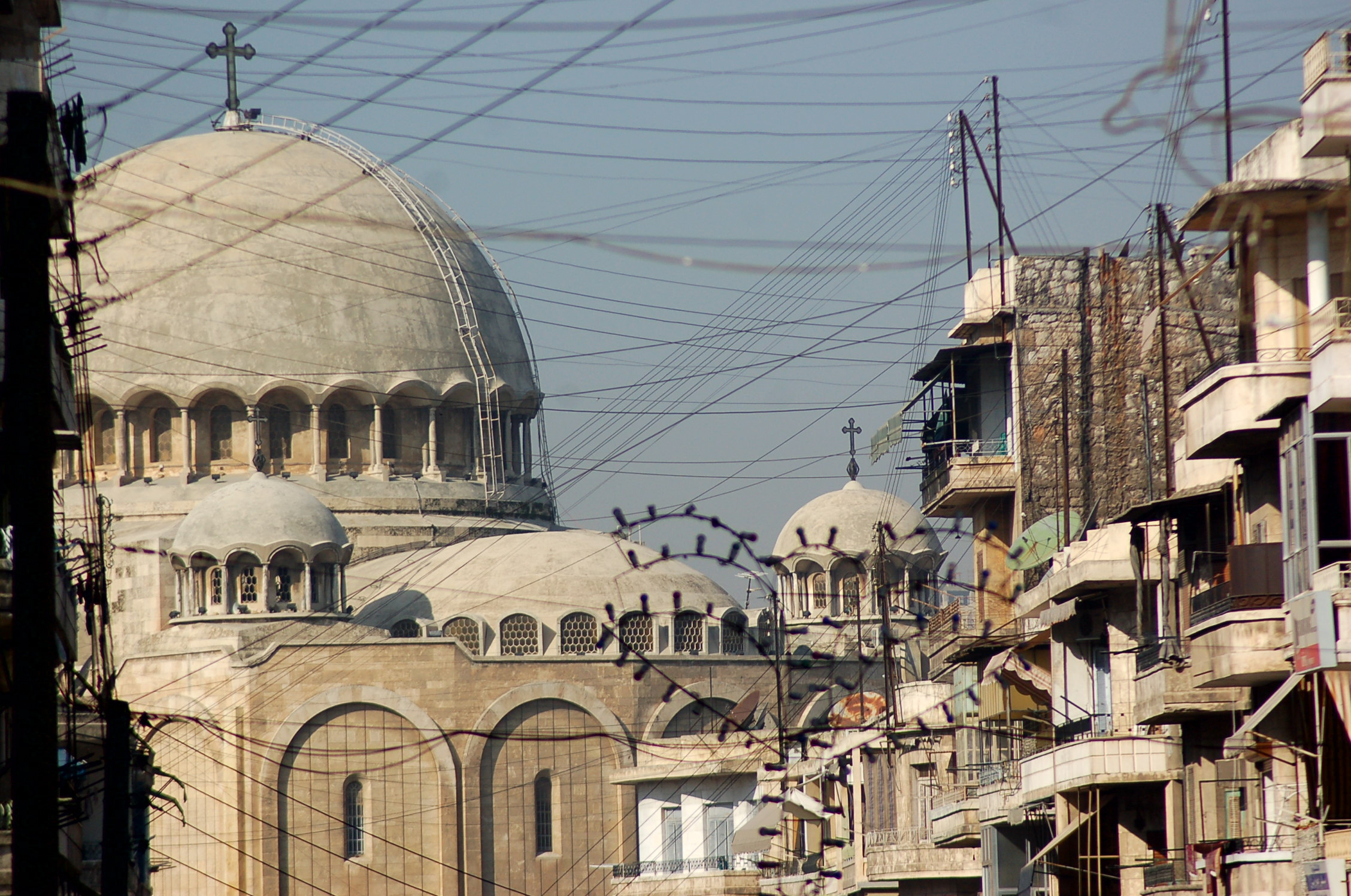 The Melkites are Byzantine Rite Catholics that trace their history to the early Christians of Antioch (today's Antakya in Turkey), where Christianity was introduced by Saint Peter. The Melkite Greek Catholic Church is headed by the Patriarch of Antioch and All the East, and Alexandria and Jerusalem; but is in full communion with the Holy See as part of the Catholic Church. The Melkite community of Aleppo is one of the oldest in the city, the eparchy of Berea (ancient name of Aleppo) dating back to the fourth century (it was elevated to the rank of archeparchy in the sixth century).